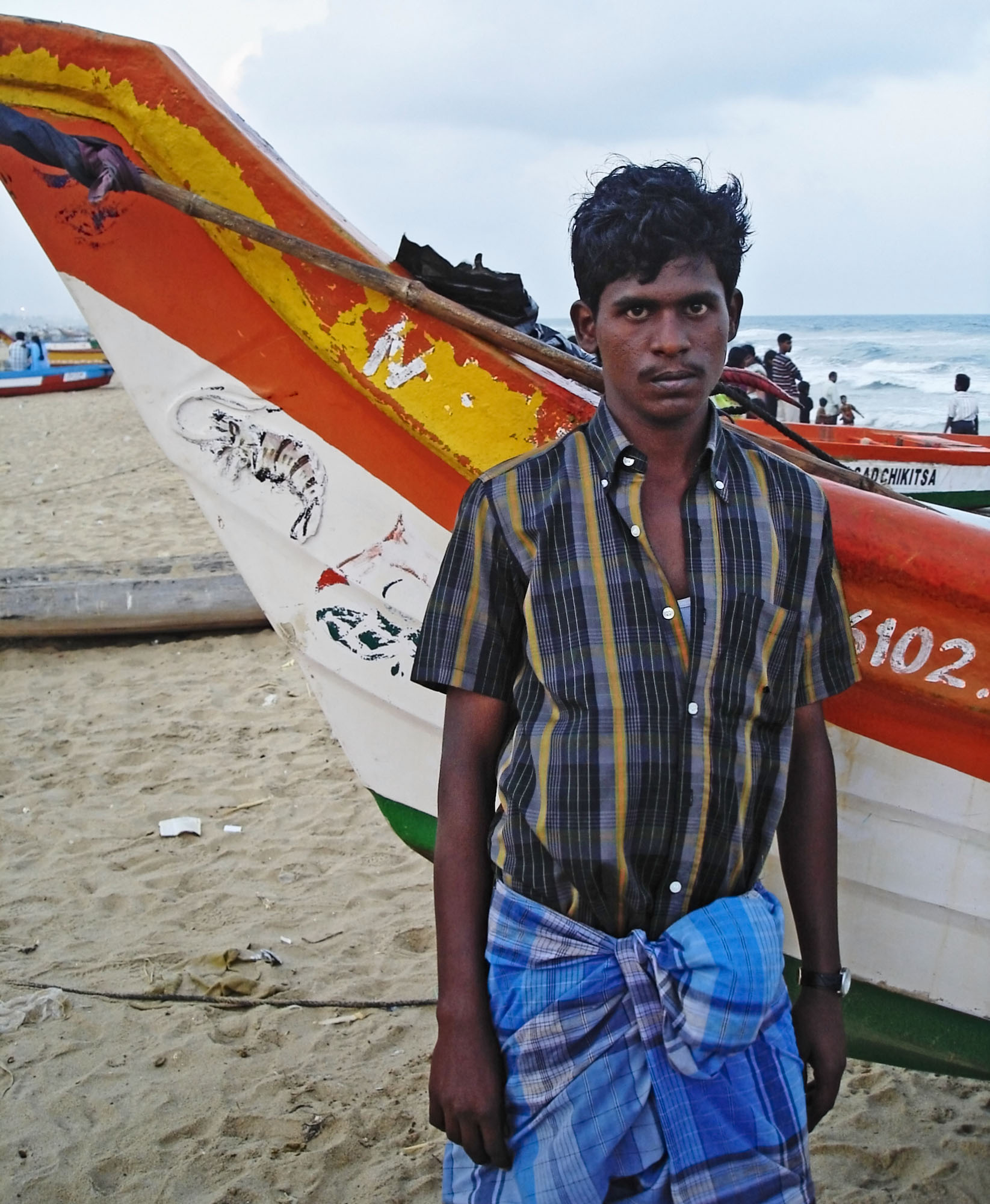 A fisherman on the Marina Beach, Chennai.